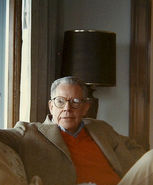 Portrait of Dave Belnap